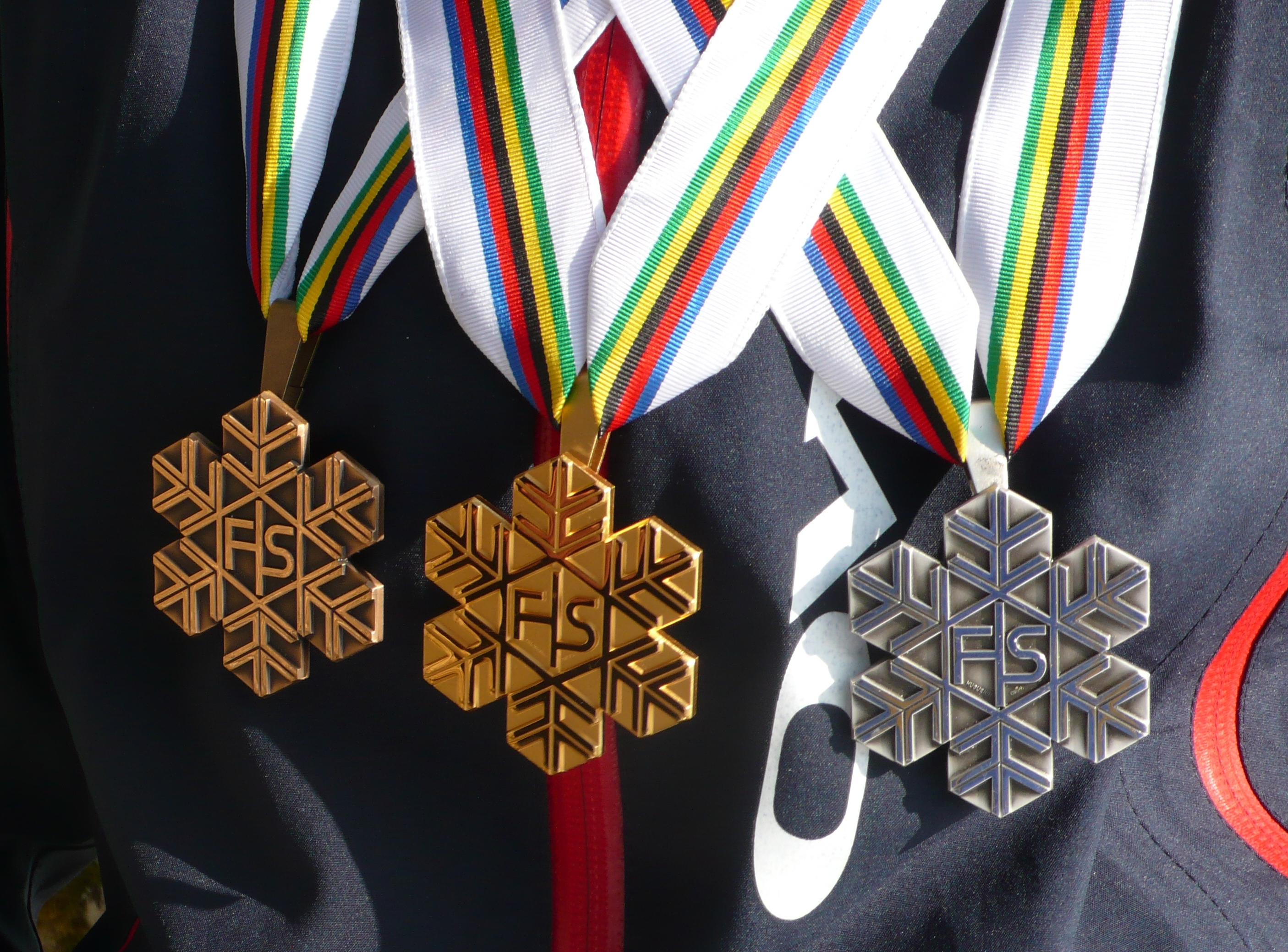 The complete set of FIS World Junior Championship medals of Coline Mattel: gold, silver and bronze, 2011